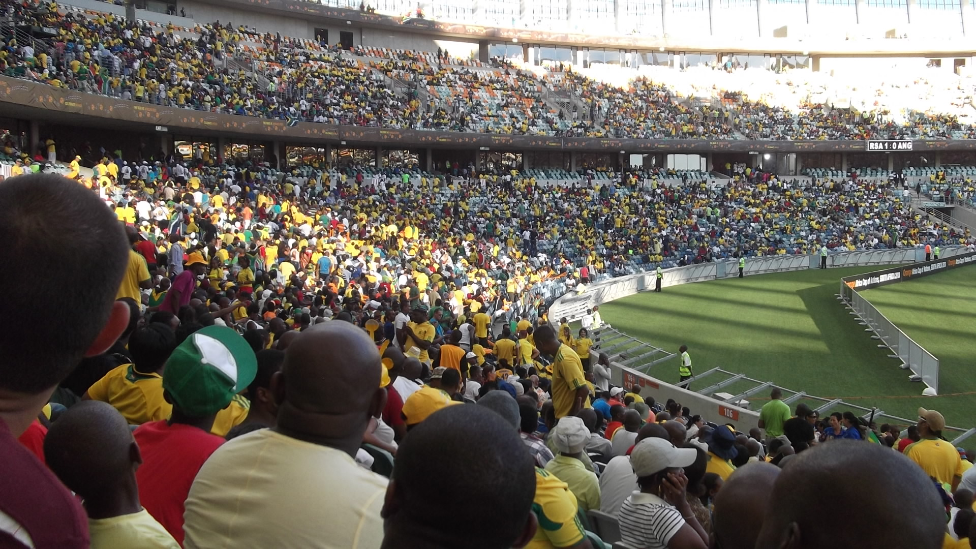 2013 Africa Cup of Nations